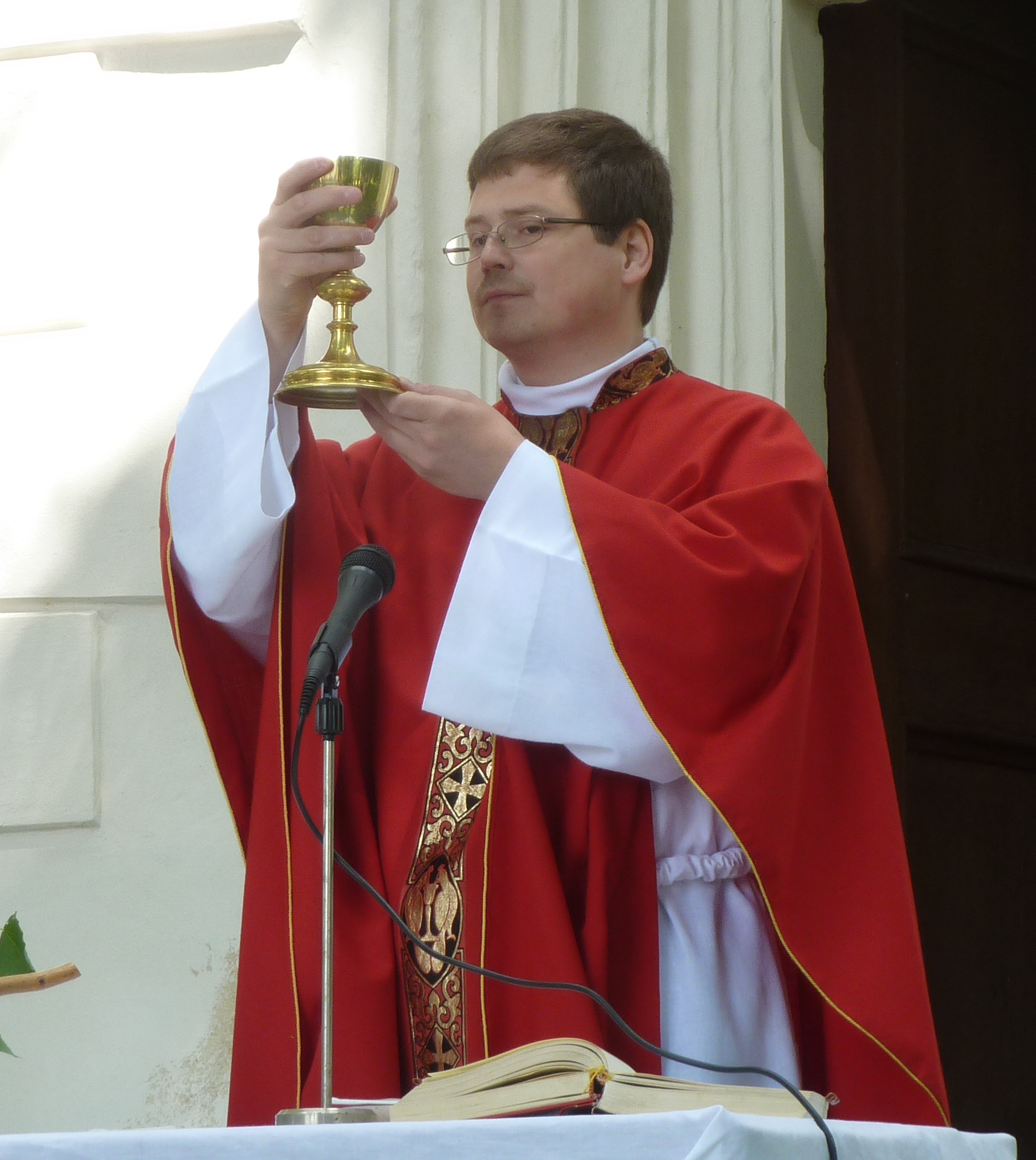 Jiří Korda celebrating a holy mass on the feast of St. John and Paul in Dobrš